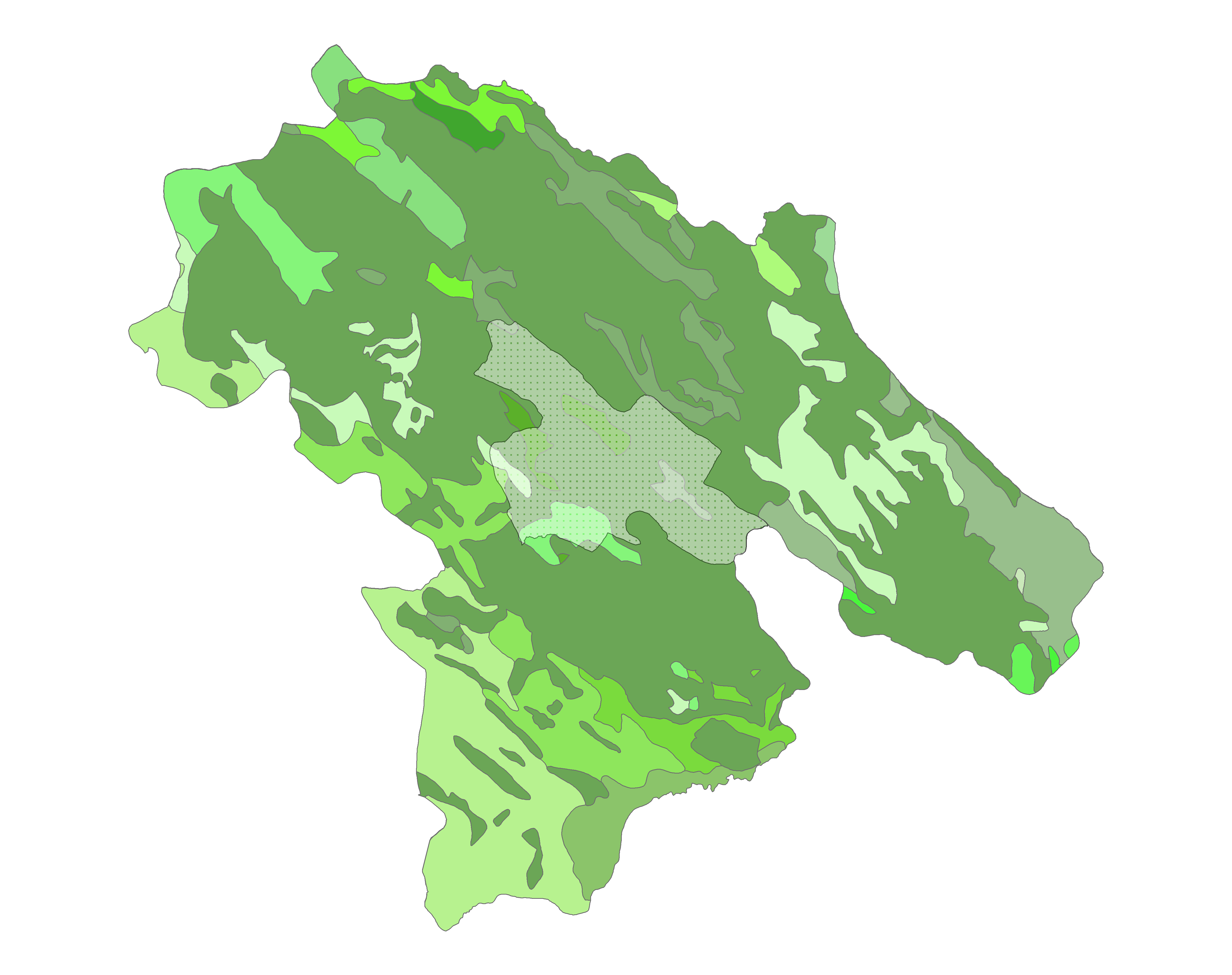 Herbaceous plants of choram county Anavillea - Artemisia Annual grasses - Annual forbs Astragalus - Bromus Astragalus - Centaurea Astragalus - Circium Astragalus - Cousinia Astragalus - Daphnae Astragalus - Ebenus Astragalus - Euphorbia Astragalus - Festuca Astragalus - Hordeum Astragalus - Hyparhenia Astragalus - Peganum Astragalus - Prangus Daphnae - Astragalus Ebenus - Astragalus Gaillonia - Taverniera Gundelia - Cousina Gymnocarpus - Astragalus Gymnocarpus - Platychaete Hammada - Annual grasses Non Range Noaea - Acantholimon Rosa persica - Launea